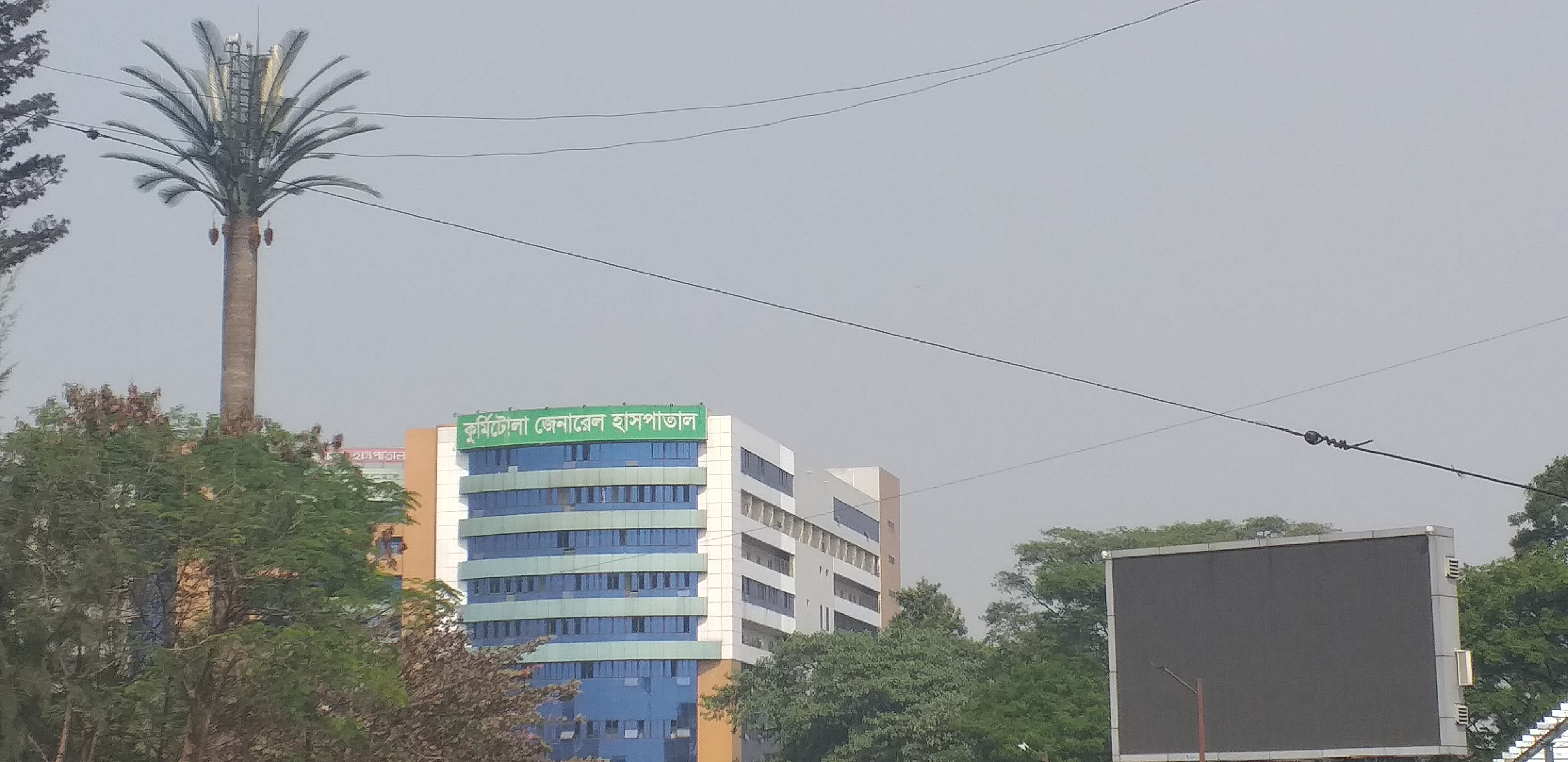 কুর্মিটোলা জেনারেল হাসপাতাল, ঢাকা